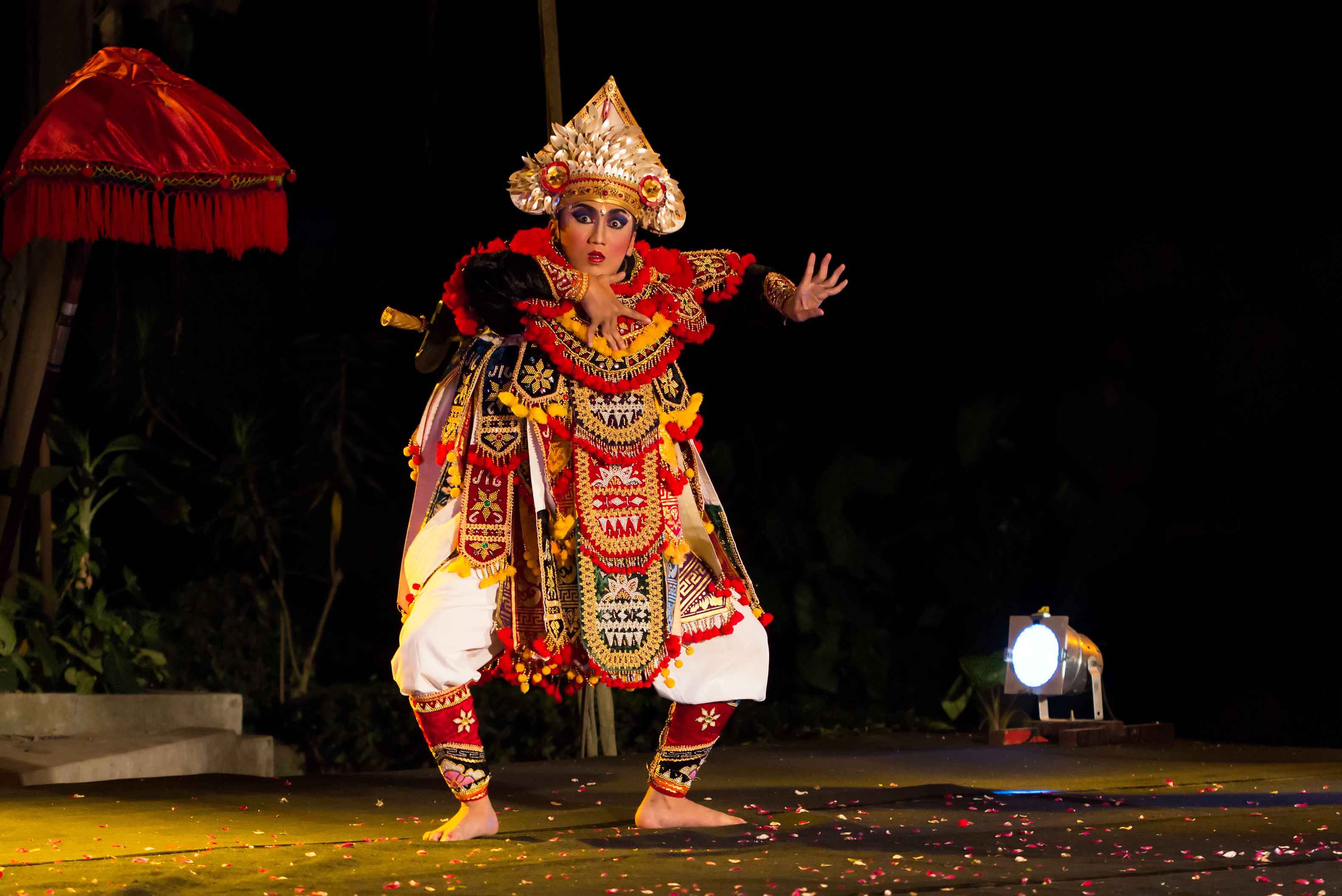 Sanata Dharma University's Sekar Jepun, a Balinese dance troupe, celebrates its 17th anniversary. Here the Baris dance is being performed.